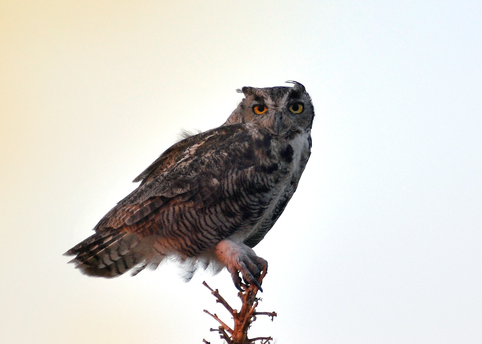 Great horned owl at twilight, sitting on a Joshua tree in the Mojave desert, USA.